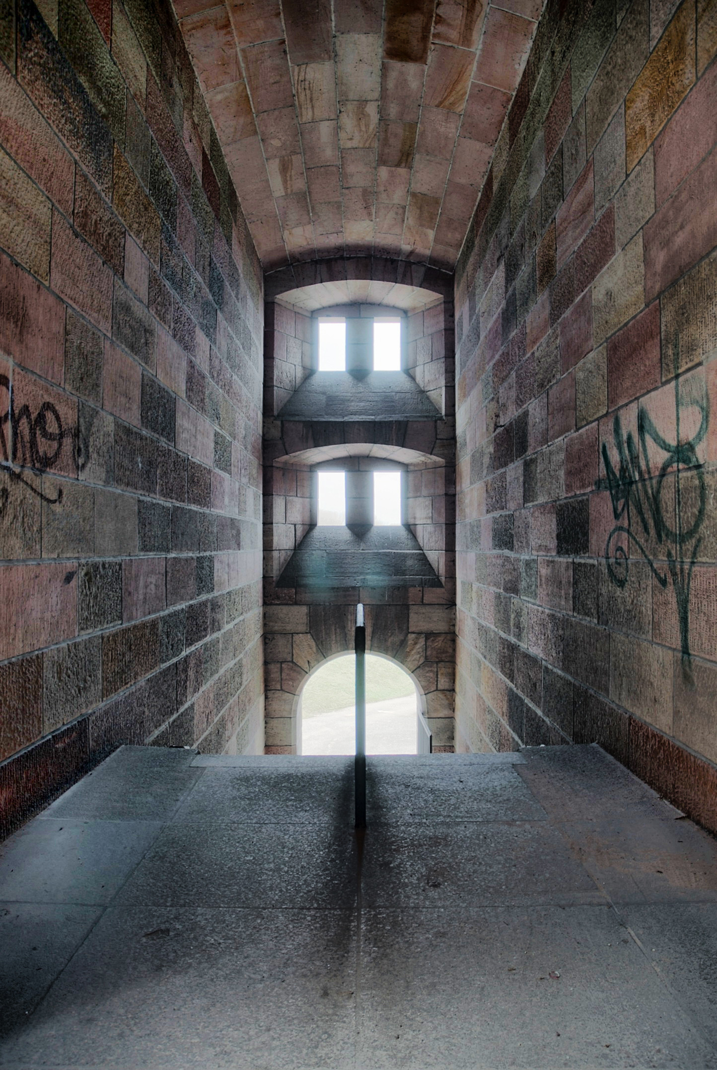 Inside of the Theodor Heuss Bridge (Frankenthal).